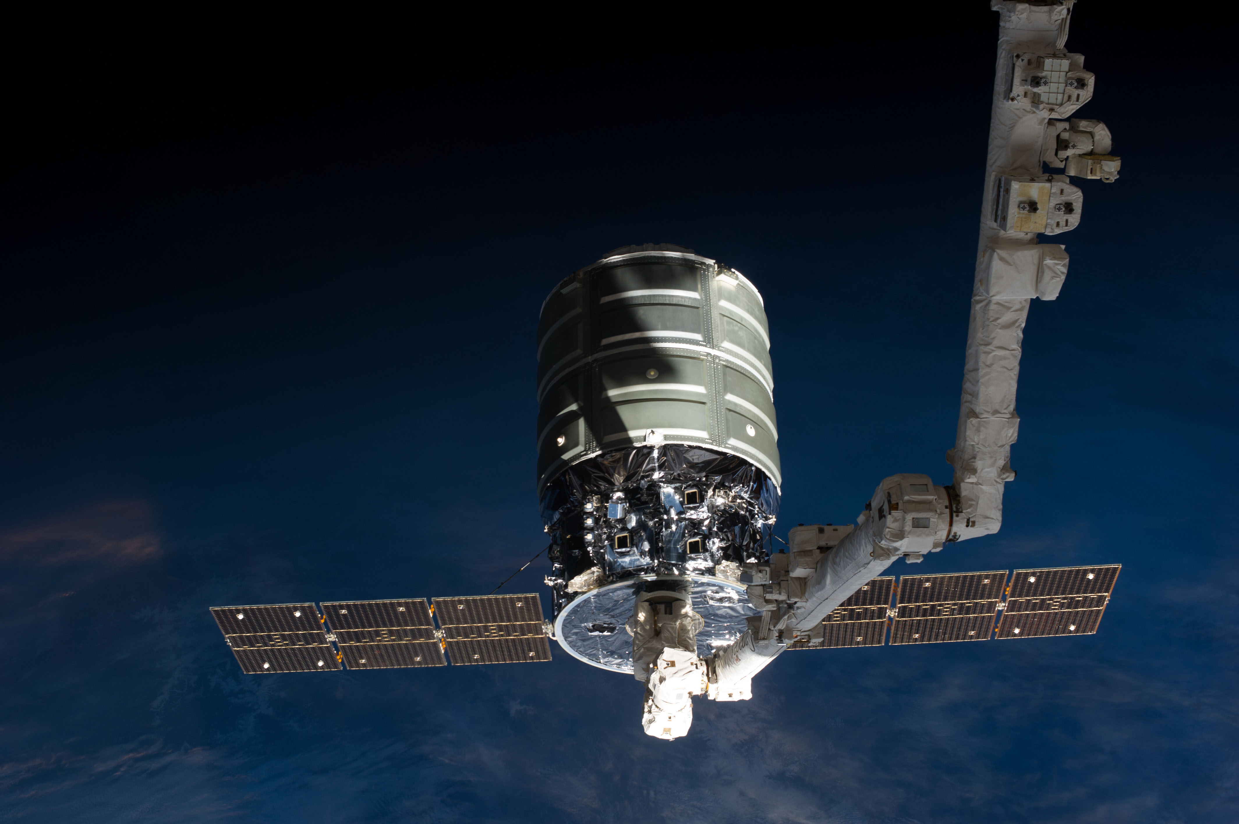 The International Space Station's Canadarm2 prepares to release the Orbital Sciences' Cygnus commercial craft after three weeks at the space station. European Space Agency astronaut Luca Parmitano and NASA astronaut Karen Nyberg, both Expedition 37 flight engineers, were at the controls of the robotics workstation removing Cygnus from the Harmony node then safely releasing it at 7:31 a.m. (EDT) Oct. 22, 2013. On Oct. 23, the Cygnus will fire its engines for the last time at 1:41 p.m. and re-enter Earth's atmosphere for destruction over the Pacific Ocean.